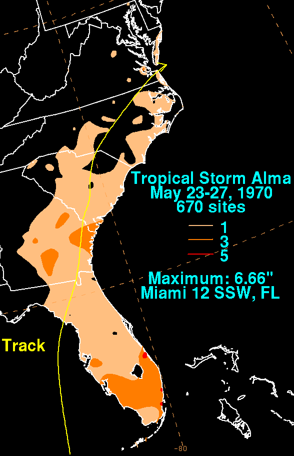 Storm total rainfall map of Tropical Storm Alma during May 1970.